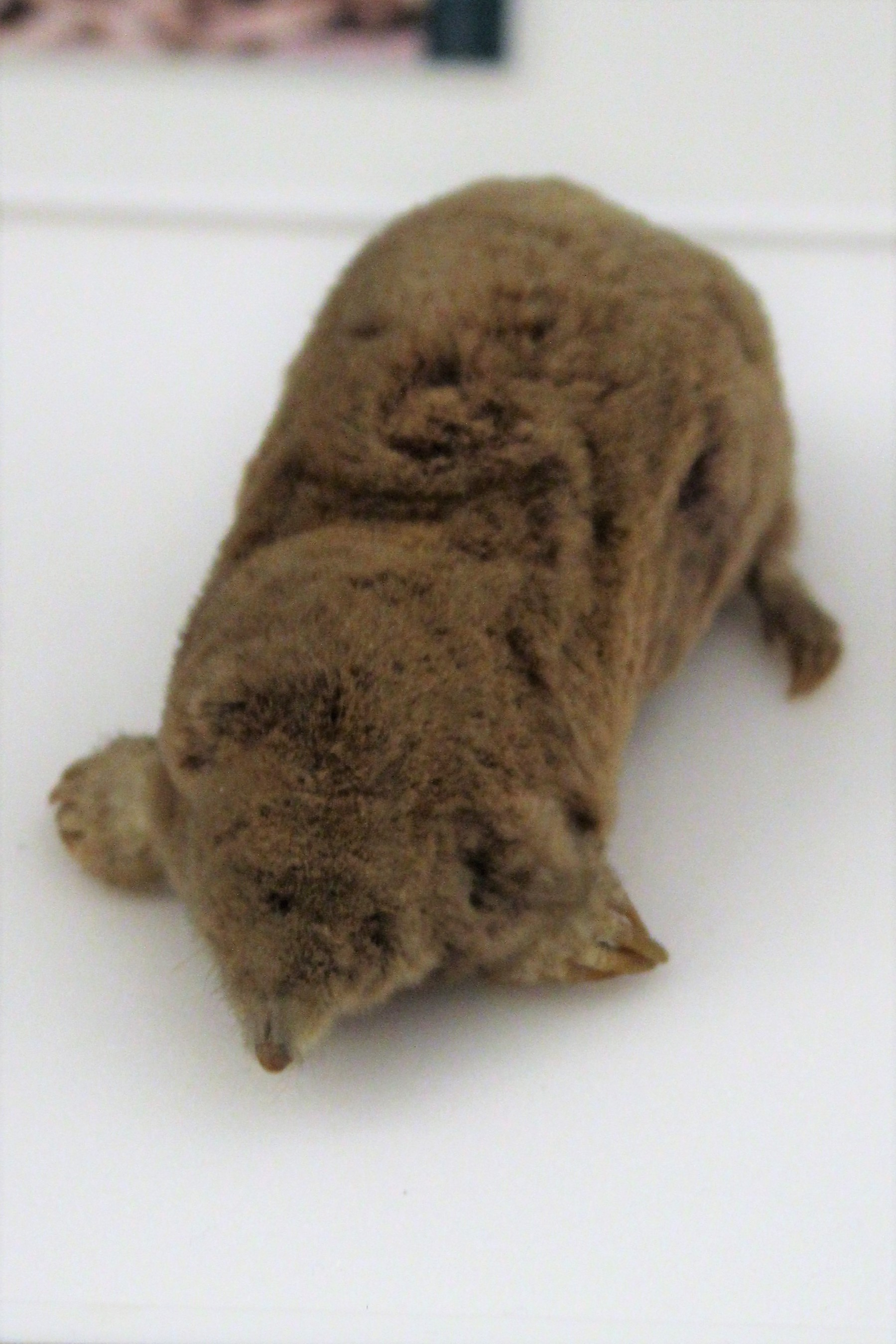 Taxidermied blind mole (Talpa caeca) at the Cambridge University Museum of Zoology, England.